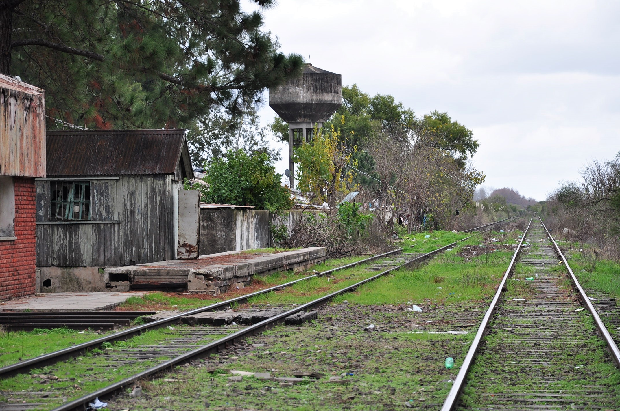 The Brazo Largo railway station lies some 8 km west of the hamlet of Brazo Largo and is part of the General Urquiza railway line (municipality of Villa Paranacito, Islas del Ibicuy department, Entre Ríos province, Argentina).